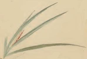 Stainton’s Natural History of the Tineina (1855–1873): Elachista biatomella plant of Carex flacca with a mined leaf blade